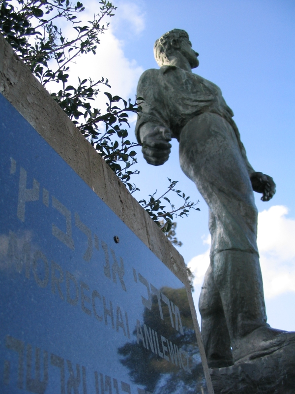 Monument to Mordechai Anilewicz at Yad Mordechai, Israel